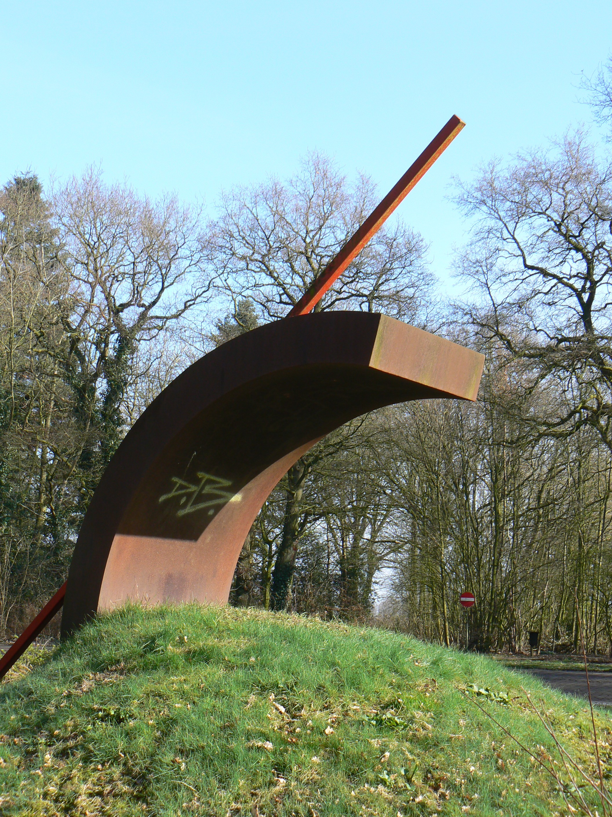 Sculpture (1986) by Adri A.C. de Fluiter in Vriescheloo/The Netherlands